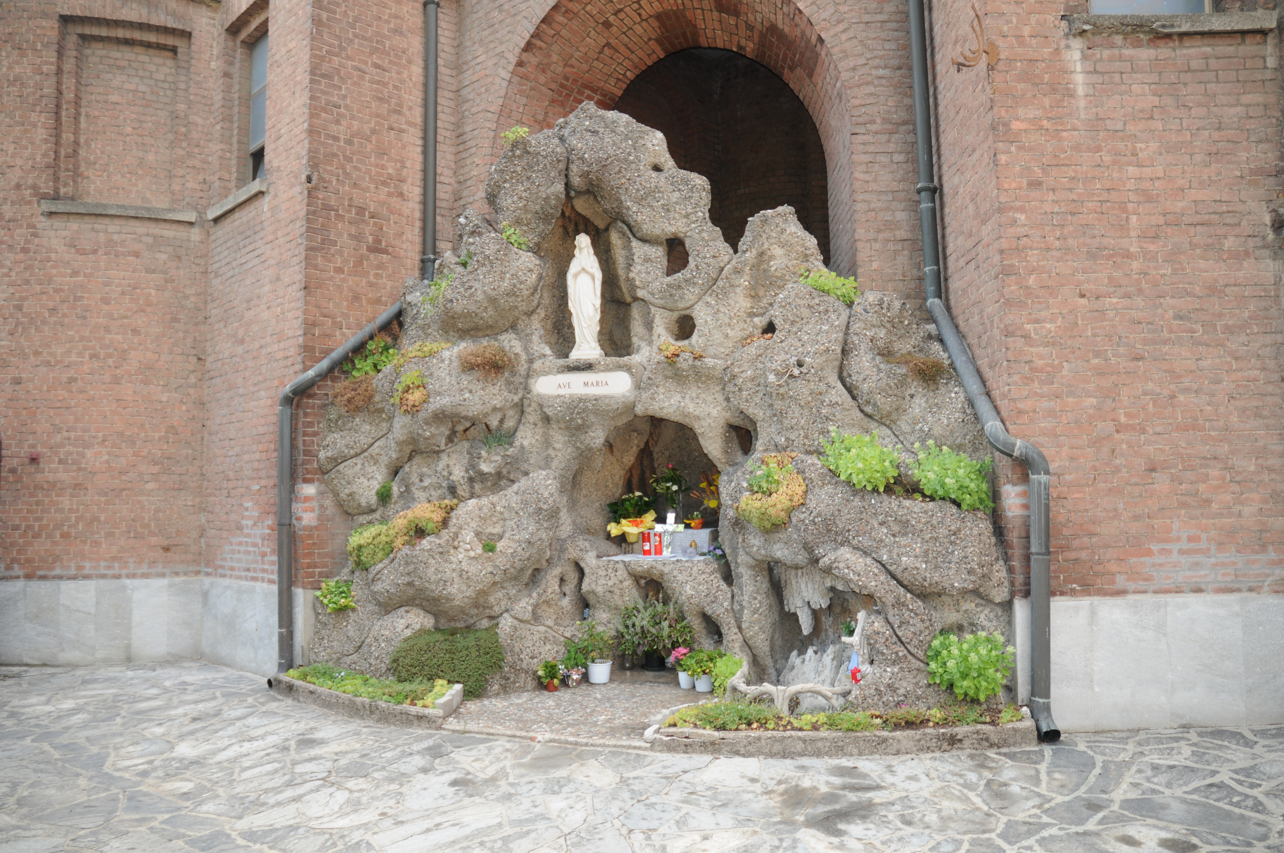 Parish Church in San Giorgio su Legnano (Italy)